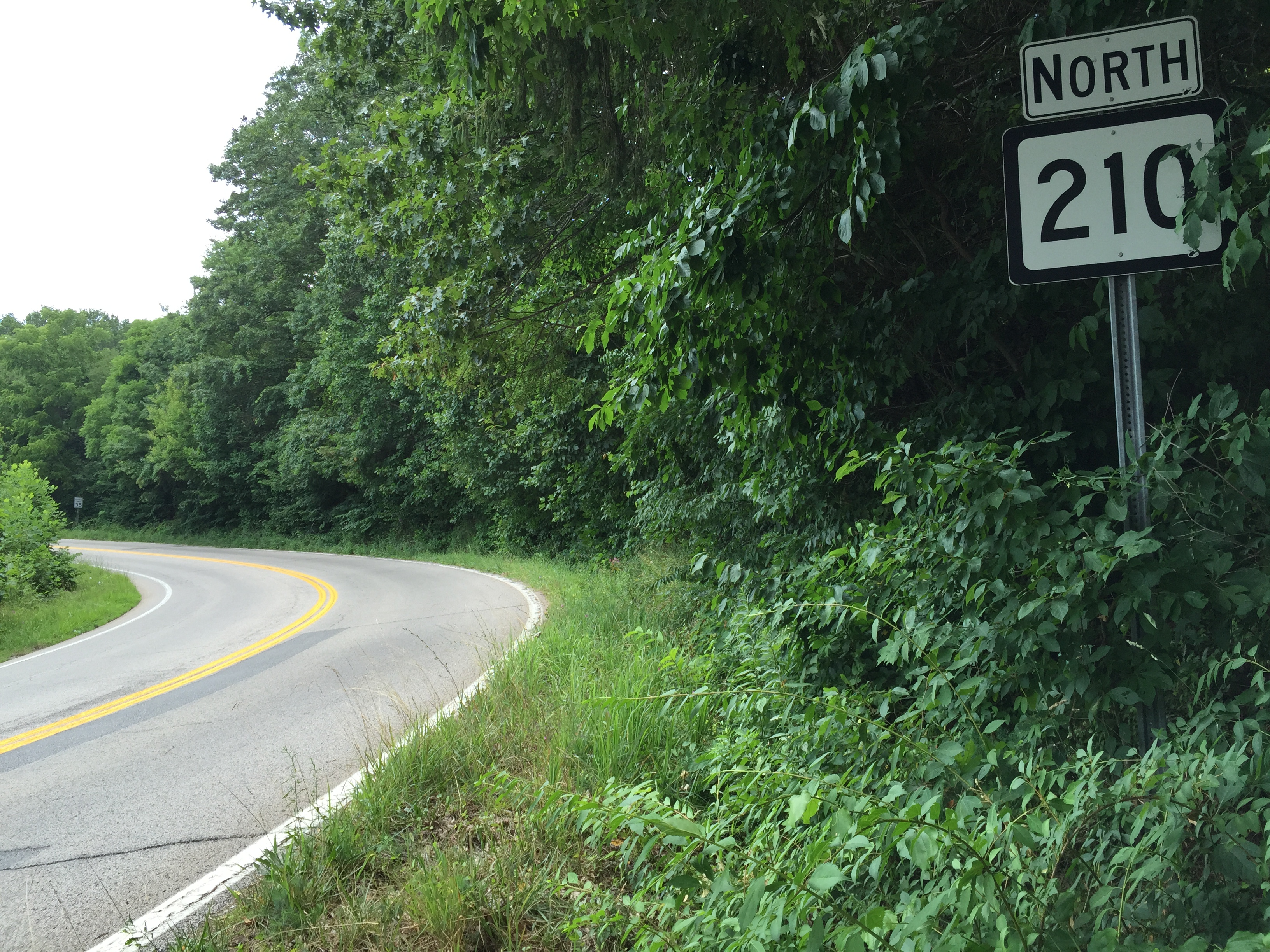 View north along West Virginia State Route 210 (Kanawha Street) at U.S. Route 19 (Eisenhower Drive) in Beckley, Raleigh County, West Virginia